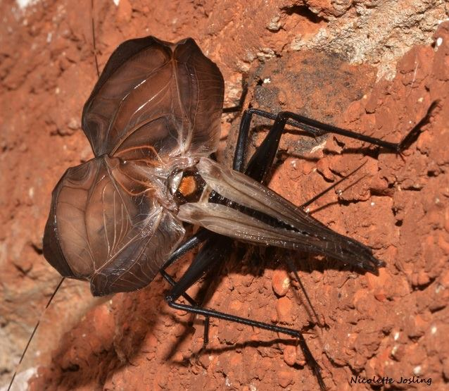 Posterior dorsal aspect of male Southern African bell cricket, Homoeogryllus orientalis in full song. The hind wings are kept folded down and are not involved in the sound production.